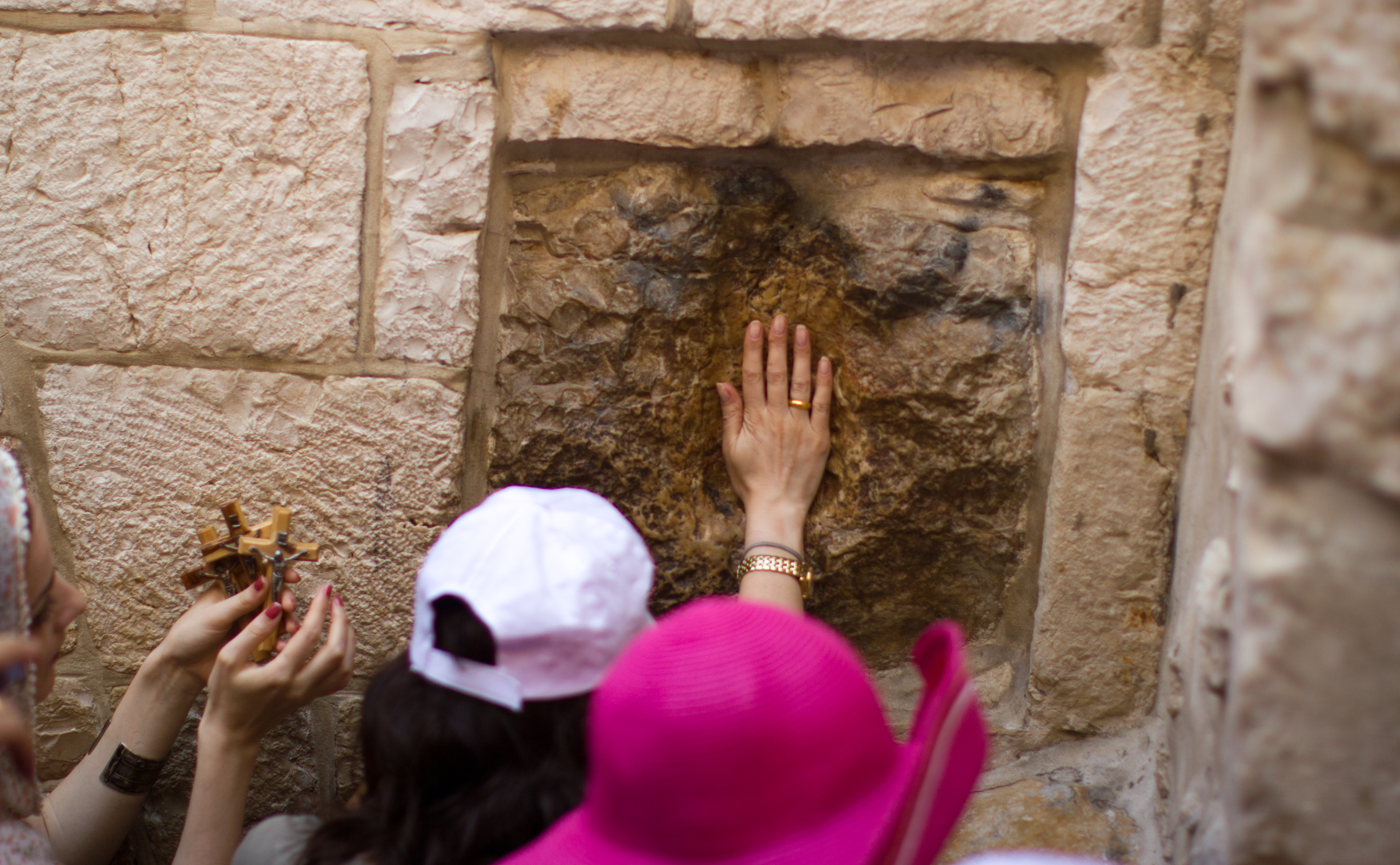 Old Jerusalem crosses spot. Via Dolorosa, Fifth Station. The stone that hold the handprint of Jesus.